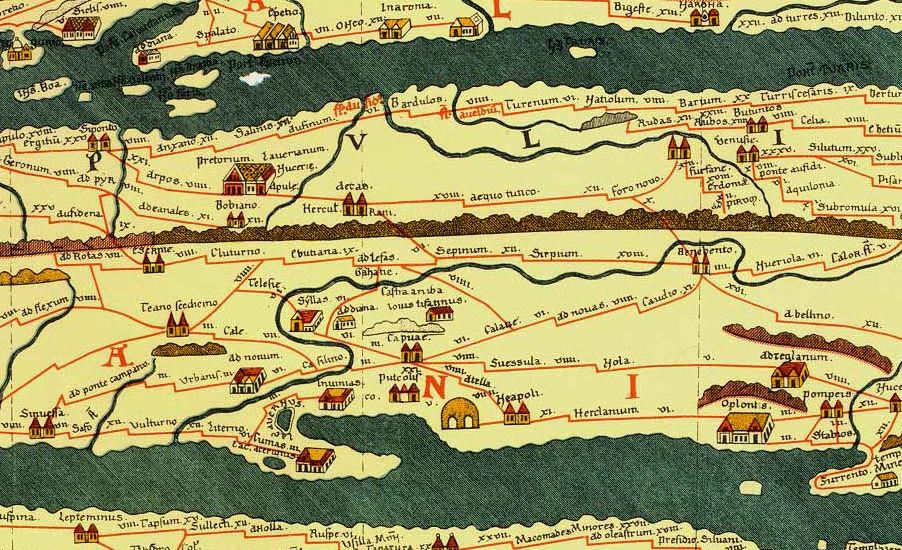 TabulaPeutingeriana, 1-4th century CE. Facsimile edition by Conradi Millieri, 1887/1888